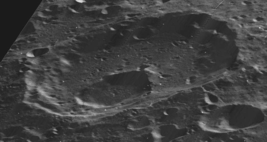 Oblique view of Lemaître, on the far side of the moon, facing west.